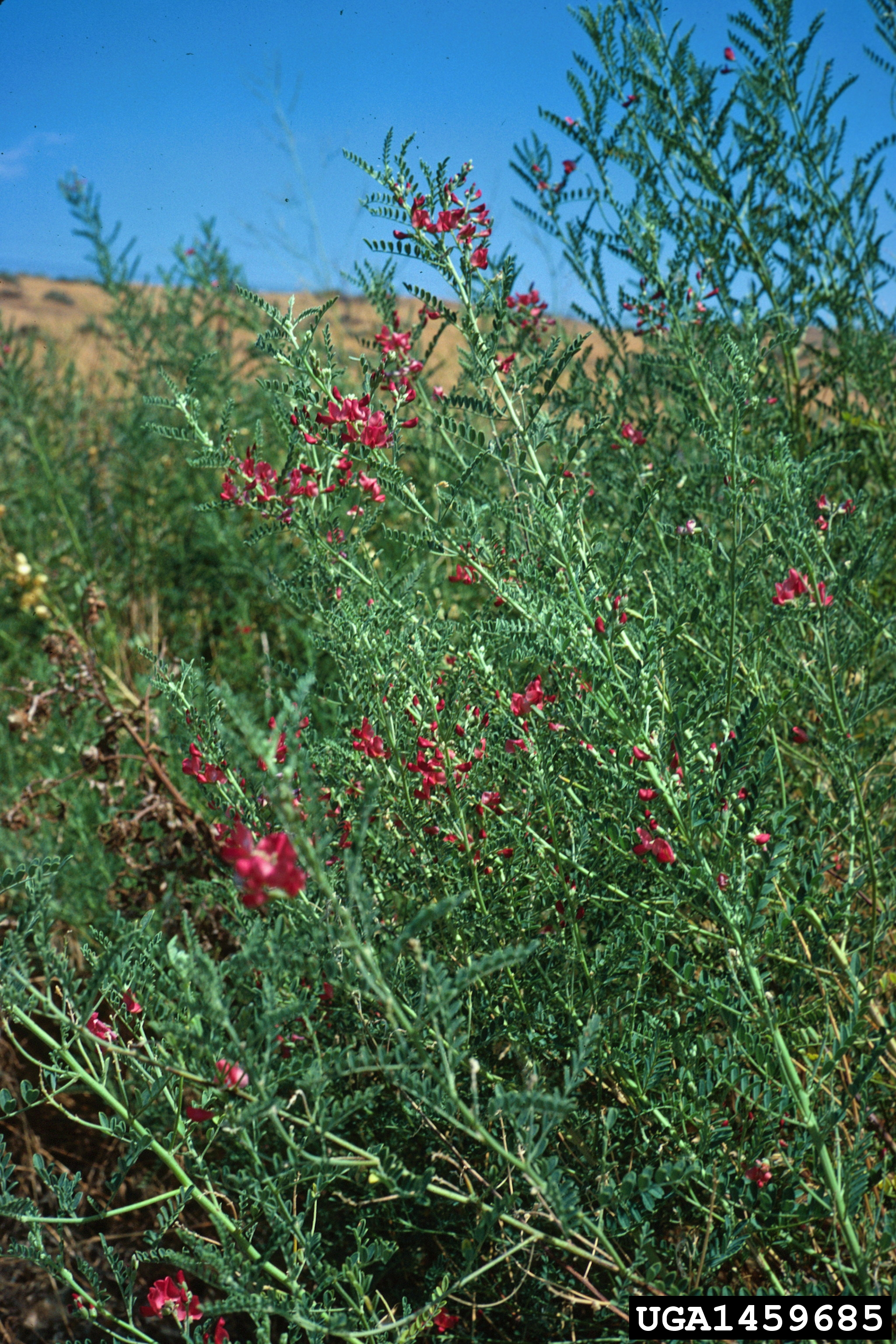 Swainsonpea Sphaerophysa salsula